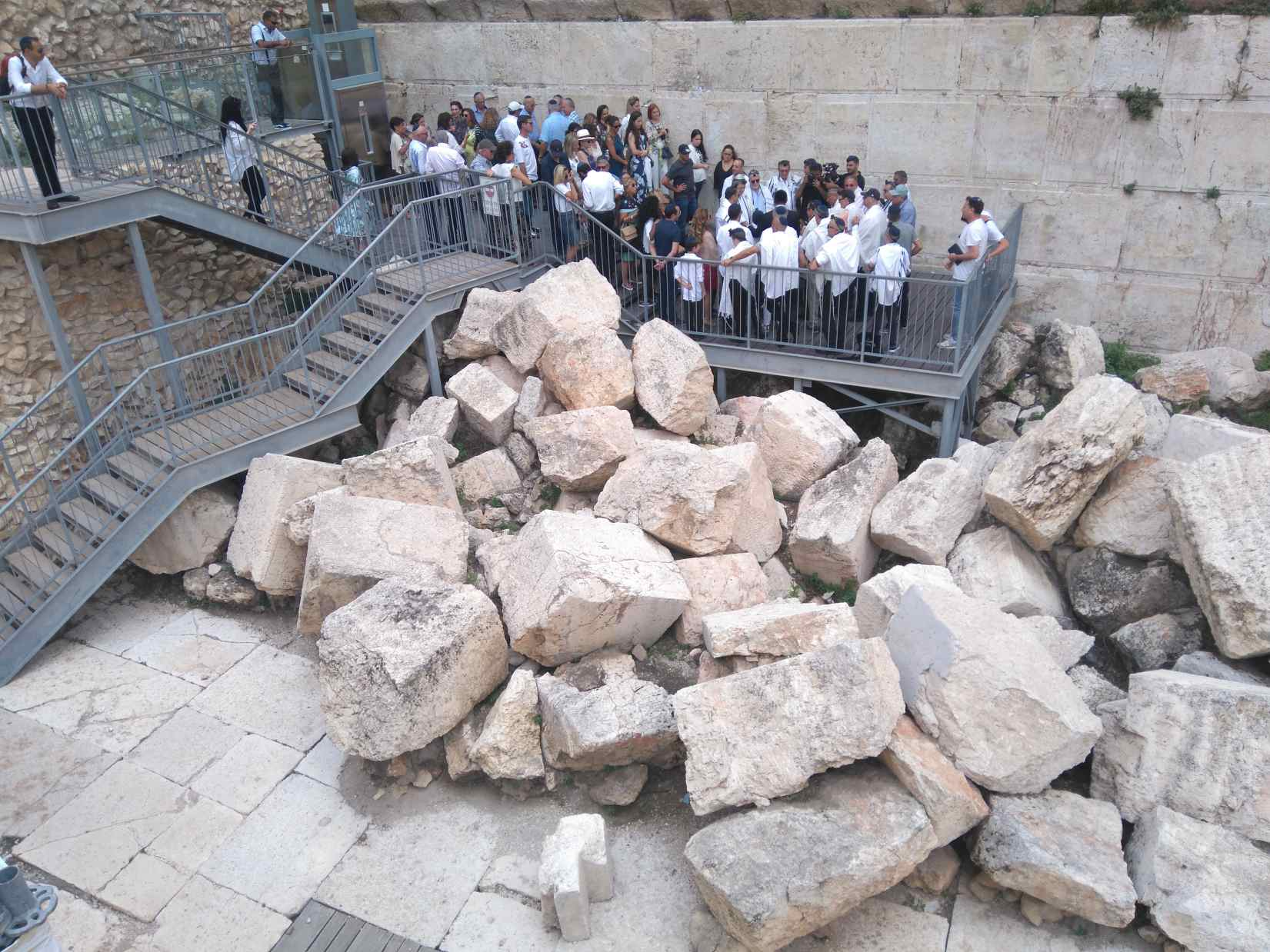 Kotel, Jerusalem. View of the Azarat Yisrael Plaza for Women of the Wall and mixed-gender ceremonies, so called Robinson's Arch prayer area though located just south of the Mughrabi Bridge ; may 2018, during a bar mitzva.